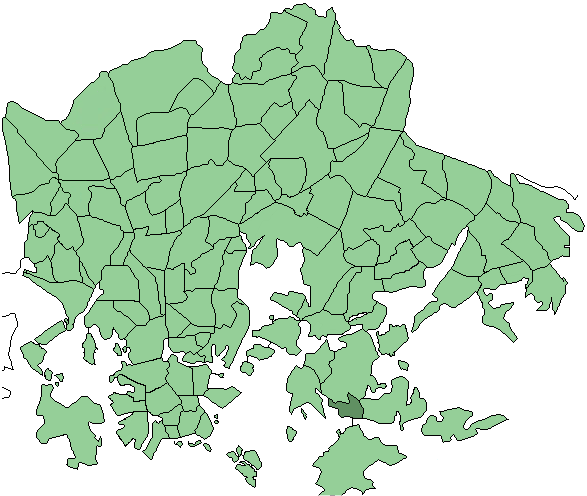 Districts of Helsinki, Hevossalmi highlighted